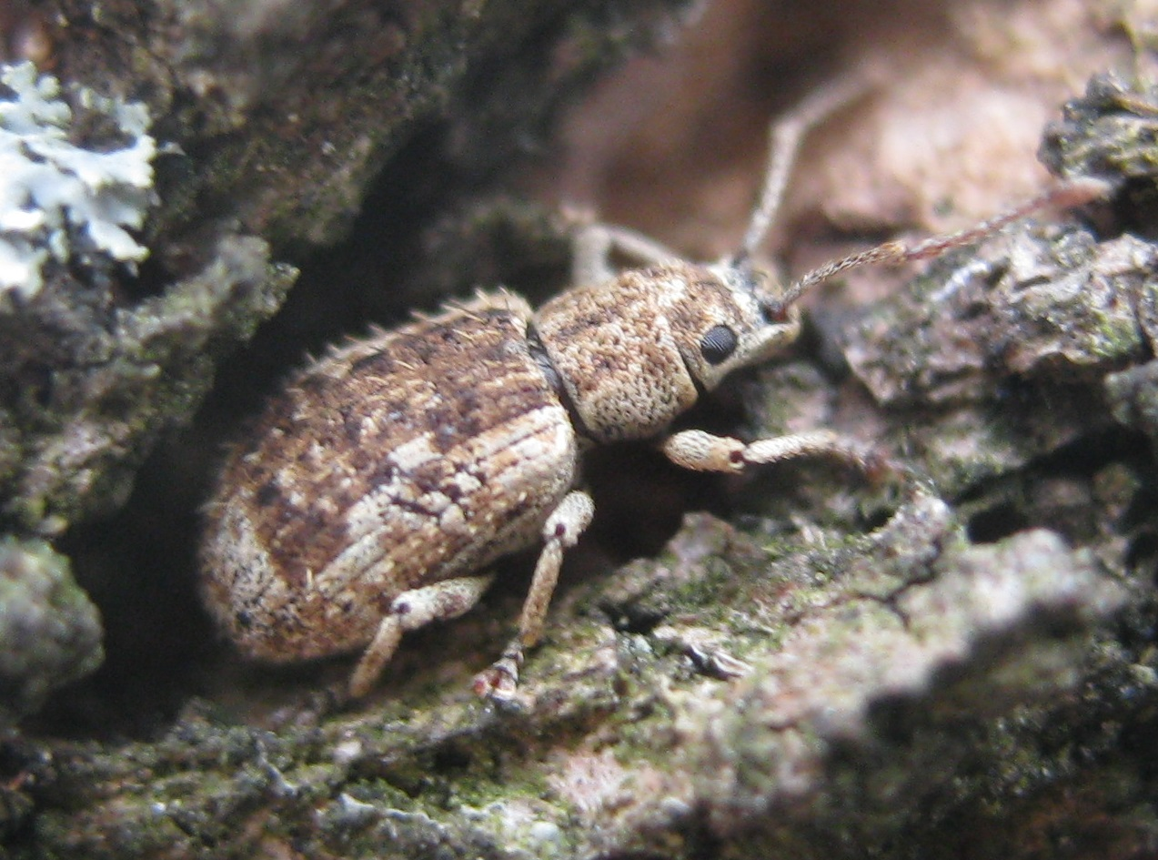 Broad-nosed weevil, Pseudoedophrys hilleri. Abington Library, Abington, Montgomery County, Pennsylvania, USA.